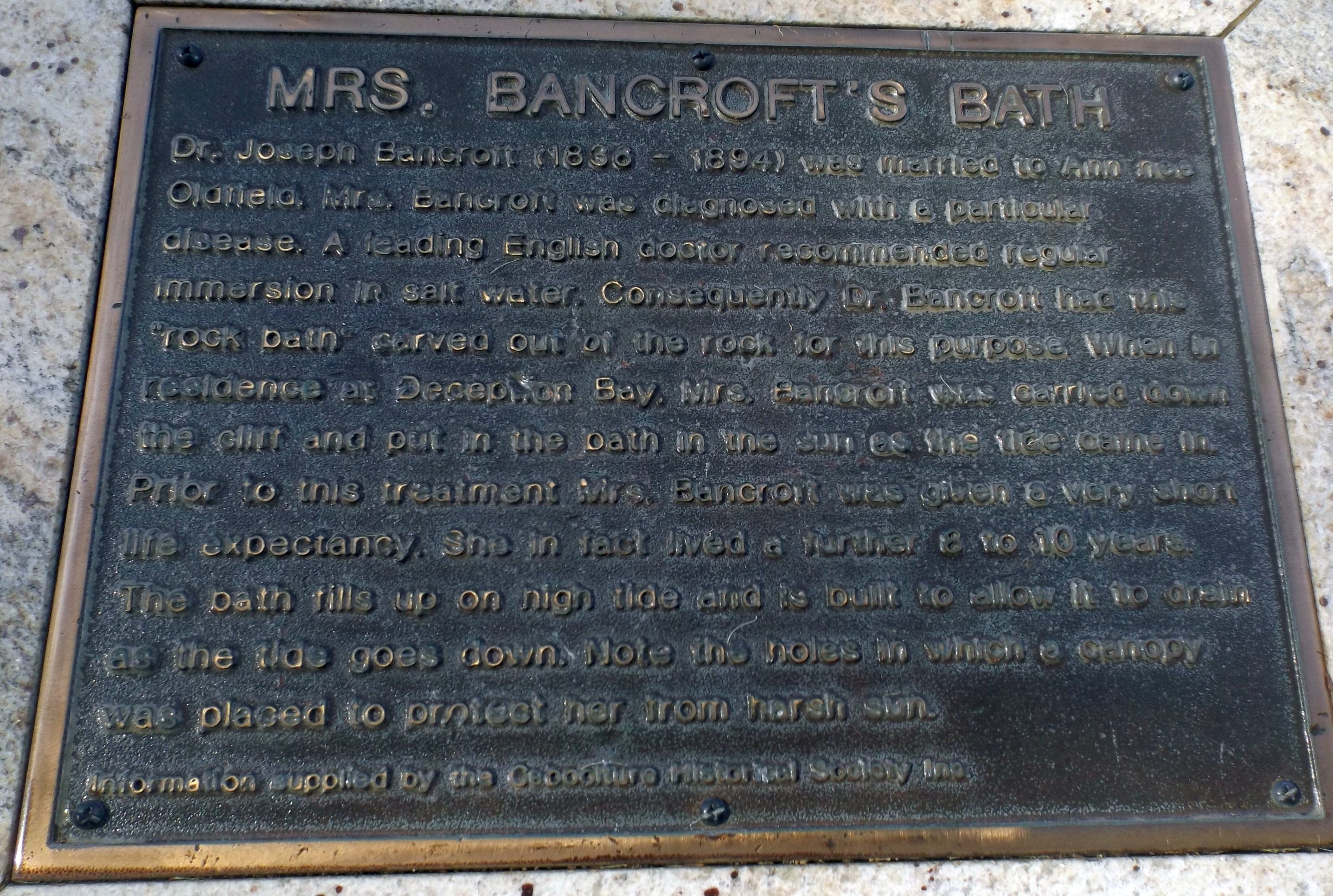 Photo of the plaque for the Deception Bay Sea Baths at Deception Bay, Moreton Bay, Queensland, Australia.